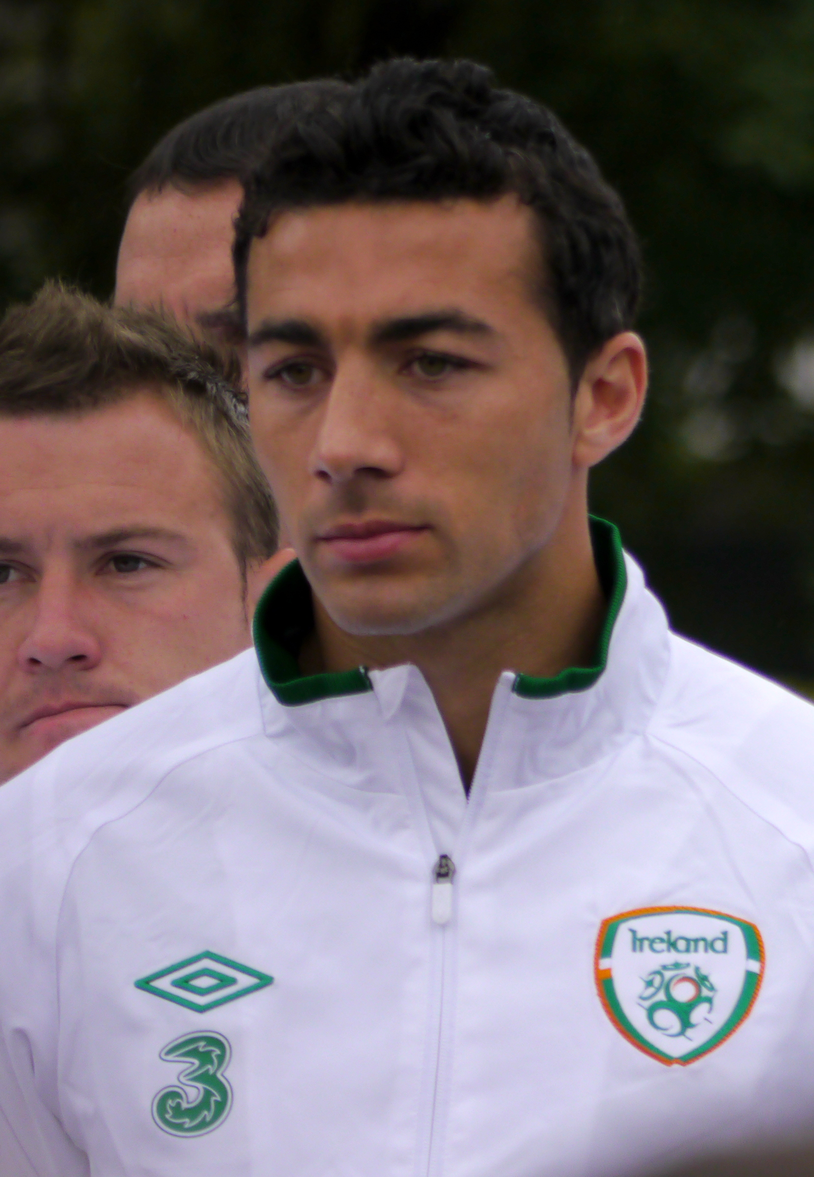 Irish football player Stephen Kelly during "welcome ceremony" in Sopot, just before EURO 2012